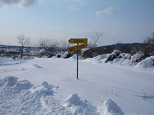 Garevo at winter